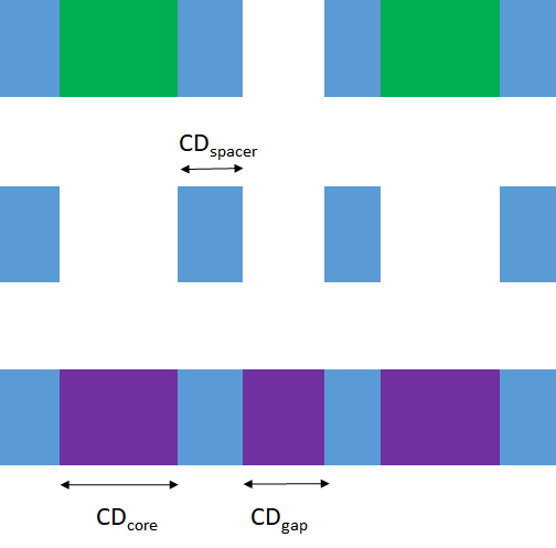 Self-aligned double patterning has excellent control of spacer-defined features, but the remaining features are vulnerable to being split into two populations: core and gap.